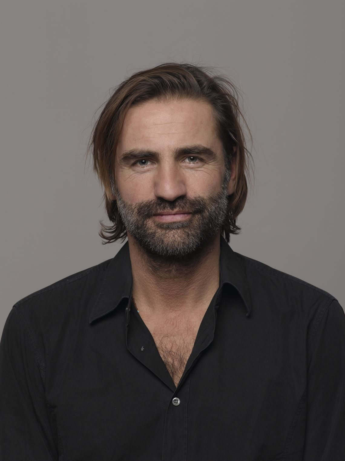 Portrait of Thomas Andreas Beck.